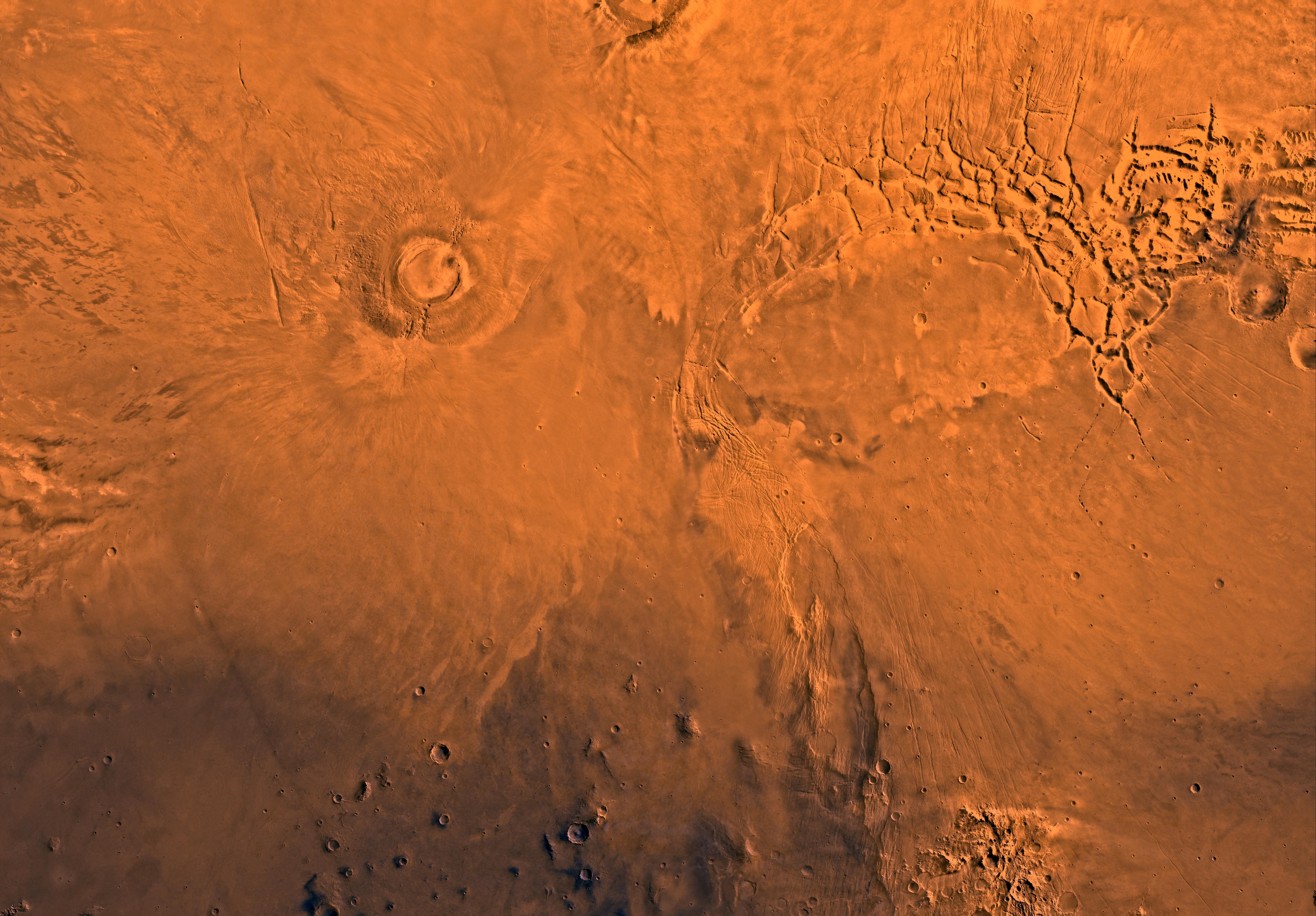 PIA00177: MC-17 Phoenicis Region Mars digital-image mosaic merged with color of the MC-17 quadrangle, Phoenicis Lacus region of Mars. Two of the four largest shield volcanoes on Mars are within the northwestern part, the south half of Pavonis Mons and Arsia Mons. The eastern part includes Syria and Sinai Plana. Most of the quadrangle forms the Tharsis plateau--the highest plateau on Mars; its elevation, 10 km, is twice that of the Tibetan Plateau, the highest plateau on Earth. Also in the northeastern part is Noctis Labyrinthus, a complex system of fault valleys at the west end of Valles Marineris. The south-central part is marked by the large fault system, Claritas Fossae. Latitude range -30 to 0 degrees, longitude range 90 to 135 degrees.